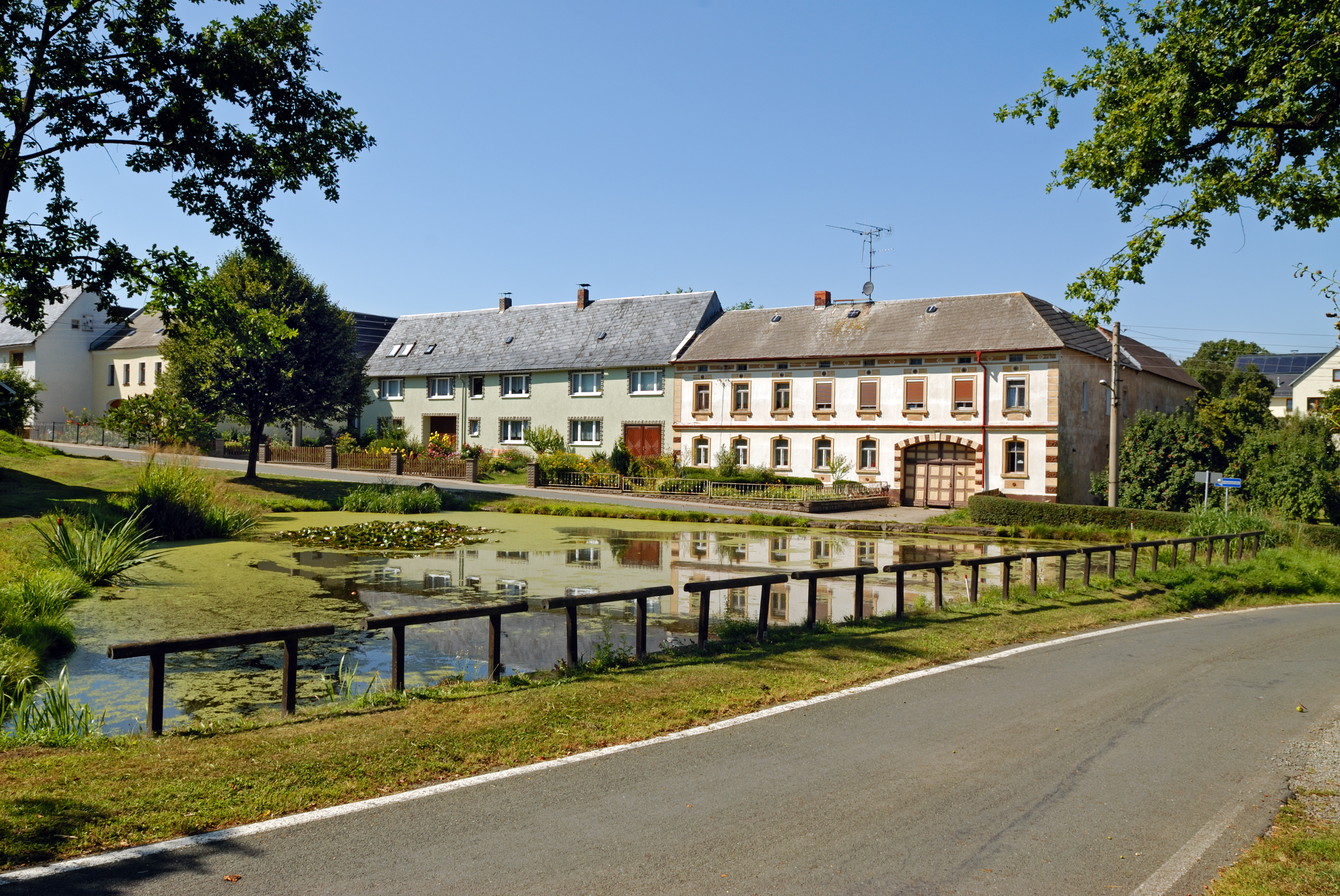 This image shows the pond in township Merkendorf in Thuringia.